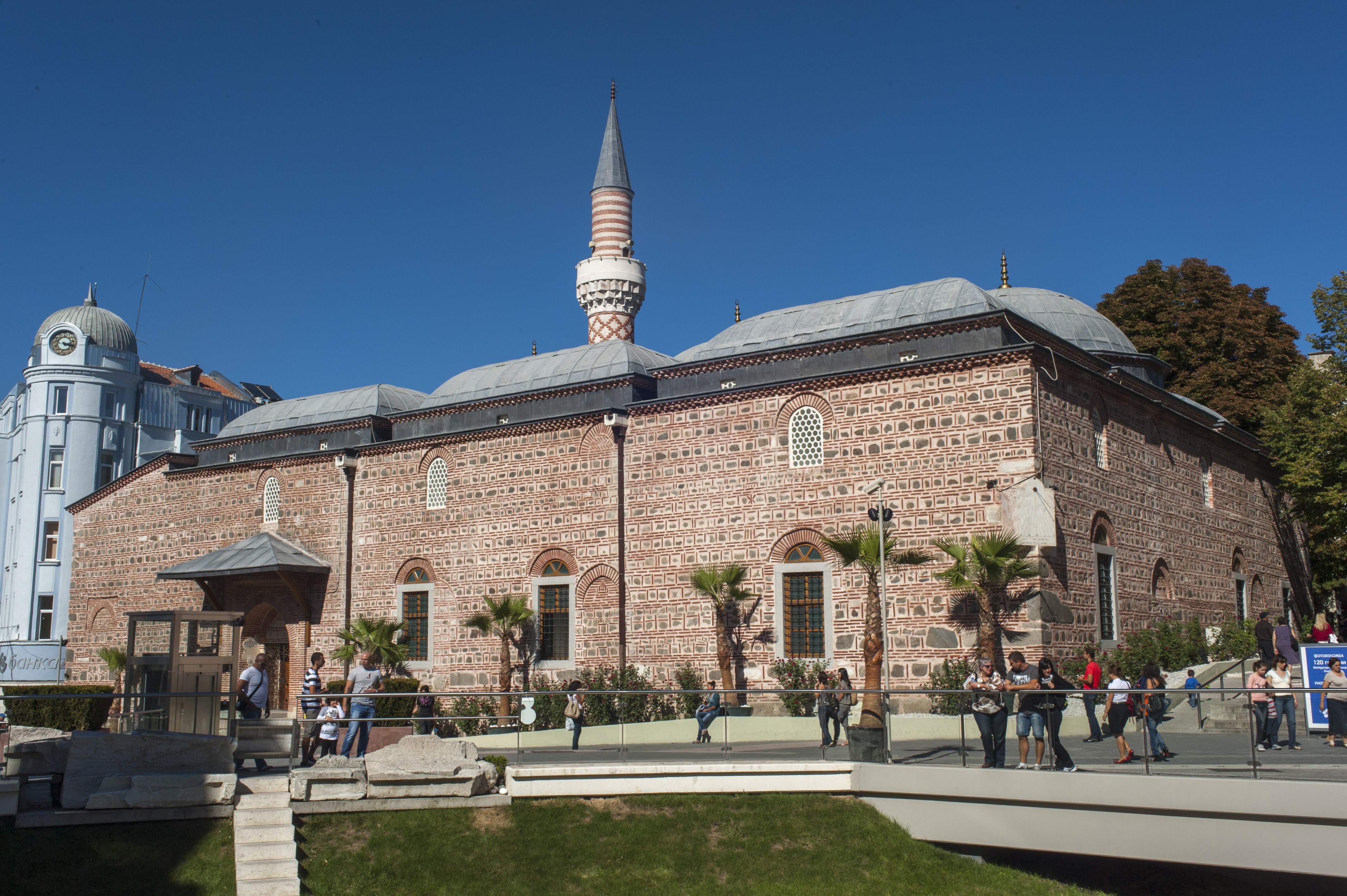 Djumaya (Cuma) Mosque, Plovdiv, Bulgaria.